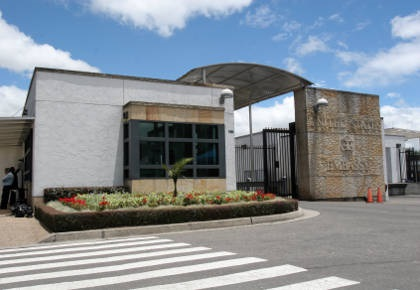 US Embassy in Bogota, Colombia